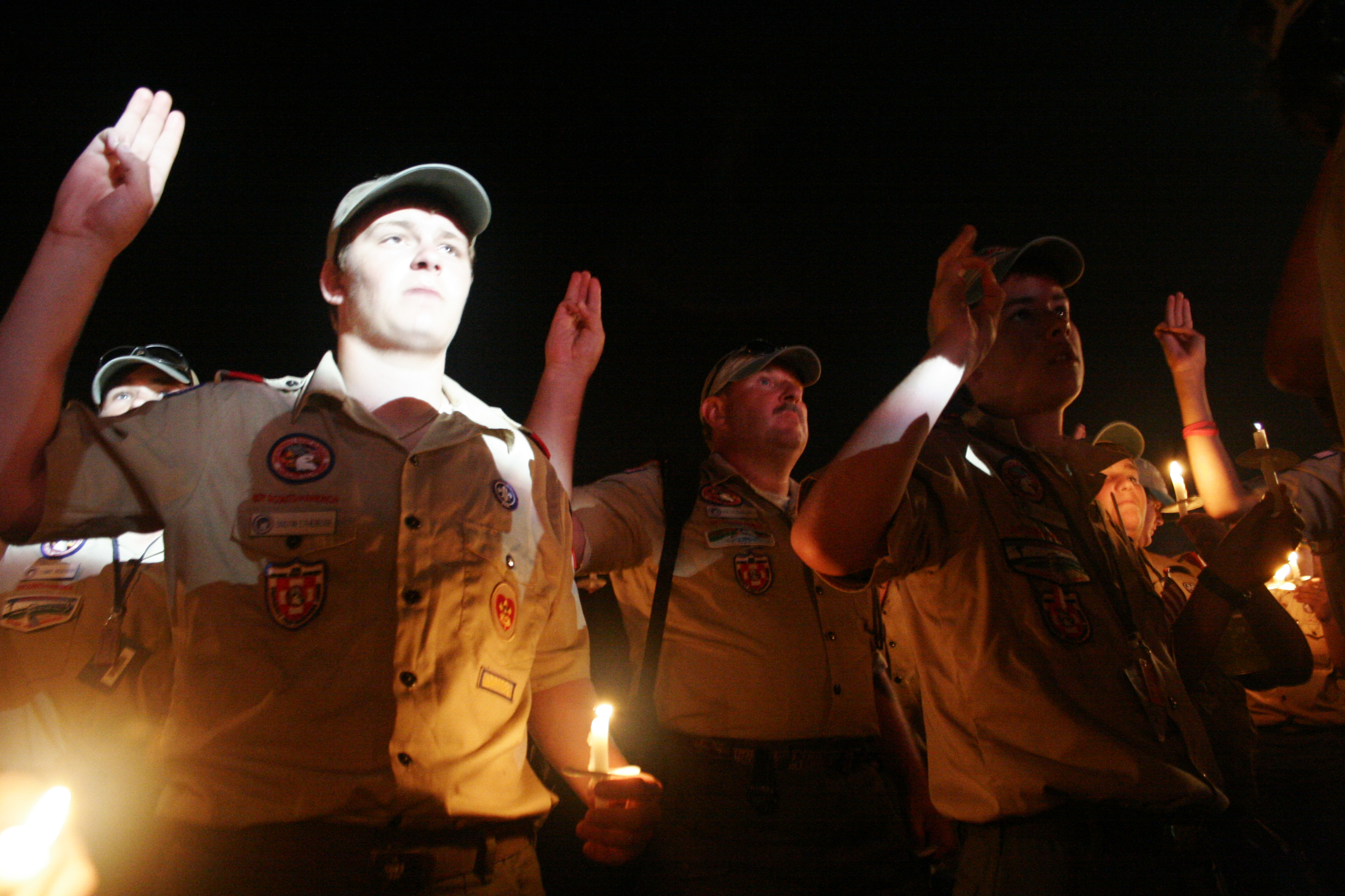 Scouts reaffirm the scout oath at the 2007 World Scout Jamborree